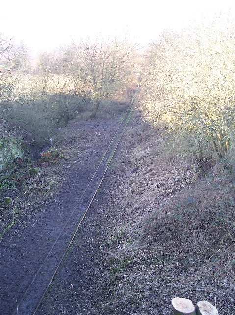 Bromyard and Linton Light Railway. In 1968 the 2 ft gauge Bromyard and Linton Light Railway was started on the bed of the old Worcester to Bromyard Railway. Today the Light Railway is no longer there. The track is still in situ and there are hopes that one day trains might return